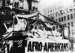 A parade float from the 1911 Golden Potlatch in Seattle, Washington, using the term "Afro-Americans".